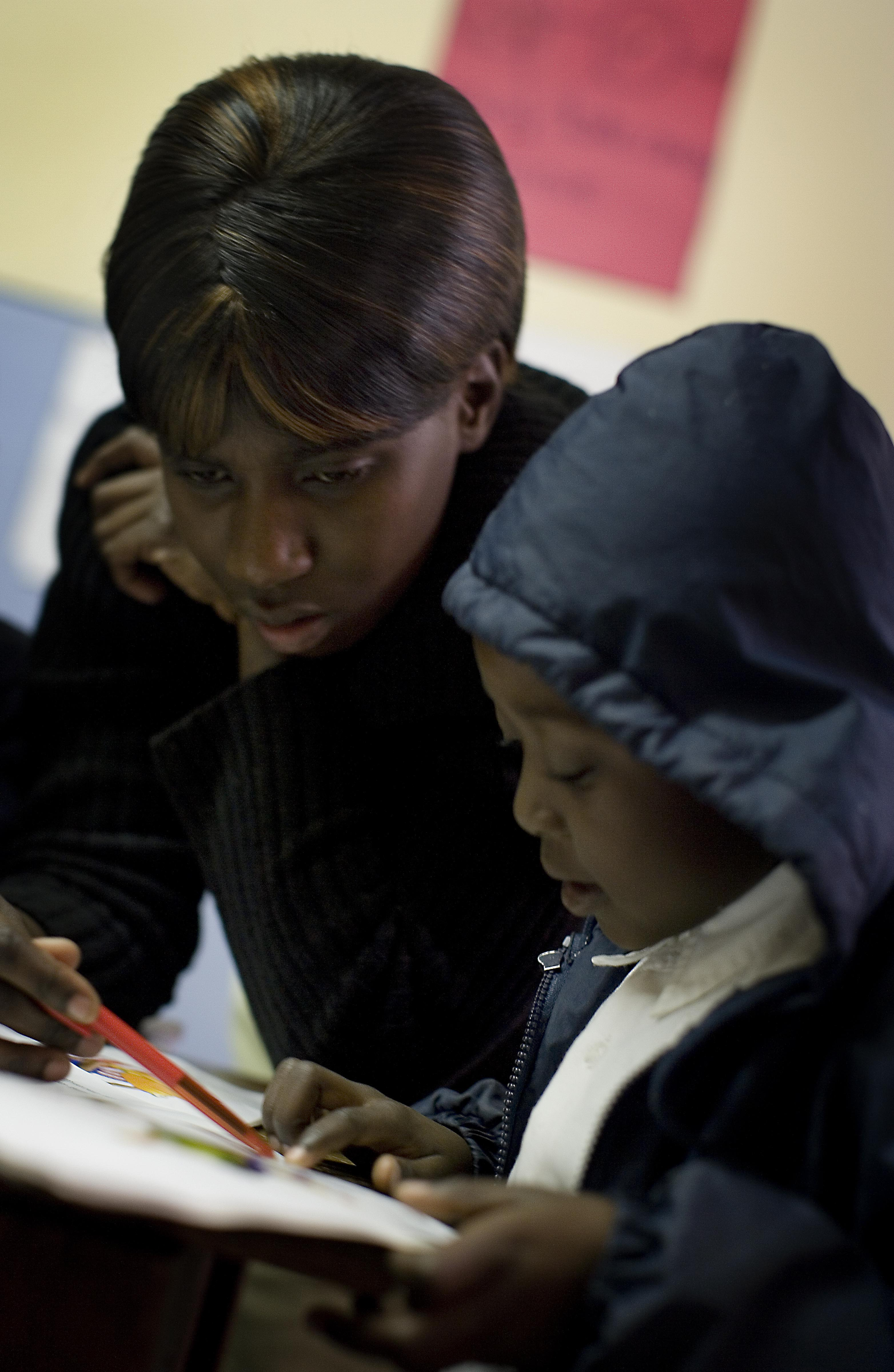 Mercy Mehlomakulu, a teacher who has come from Zimbabwe in search of work and who has recently requalified in South Africa with assistance from AusAid, teaches some of her pupils in St Albert's school which is part of the Methodist Mission, Johannesburg, South Africa on the 4th June, 2009. AusAid, assisted hundreds of teachers who have come from Zimbabwe to re register in South Africa so that the could start teaching again under the South AFrican system. Photo: Kate Holt / AusAID